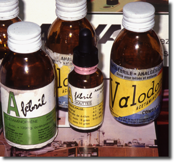 Afebril and Valodon, the two medications (in three formulations) found to be contaminated with DEG and the cause of the 1995-1996 Haiti epidemic of renal failure in children